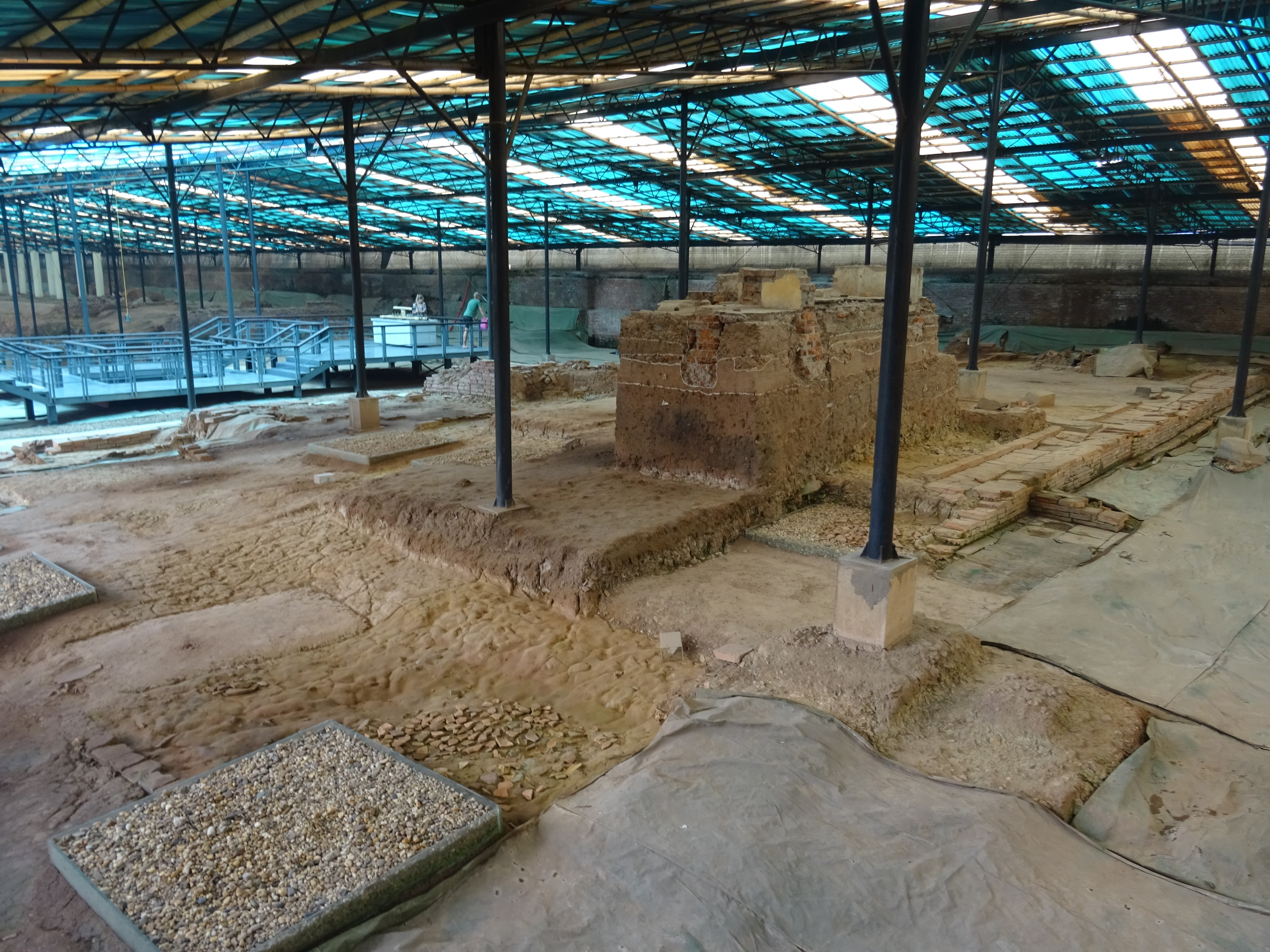 The Hoang Thanh Historical Site in the Citadel of Hanoi (covered excavation site at Hoàng Diệu 18).